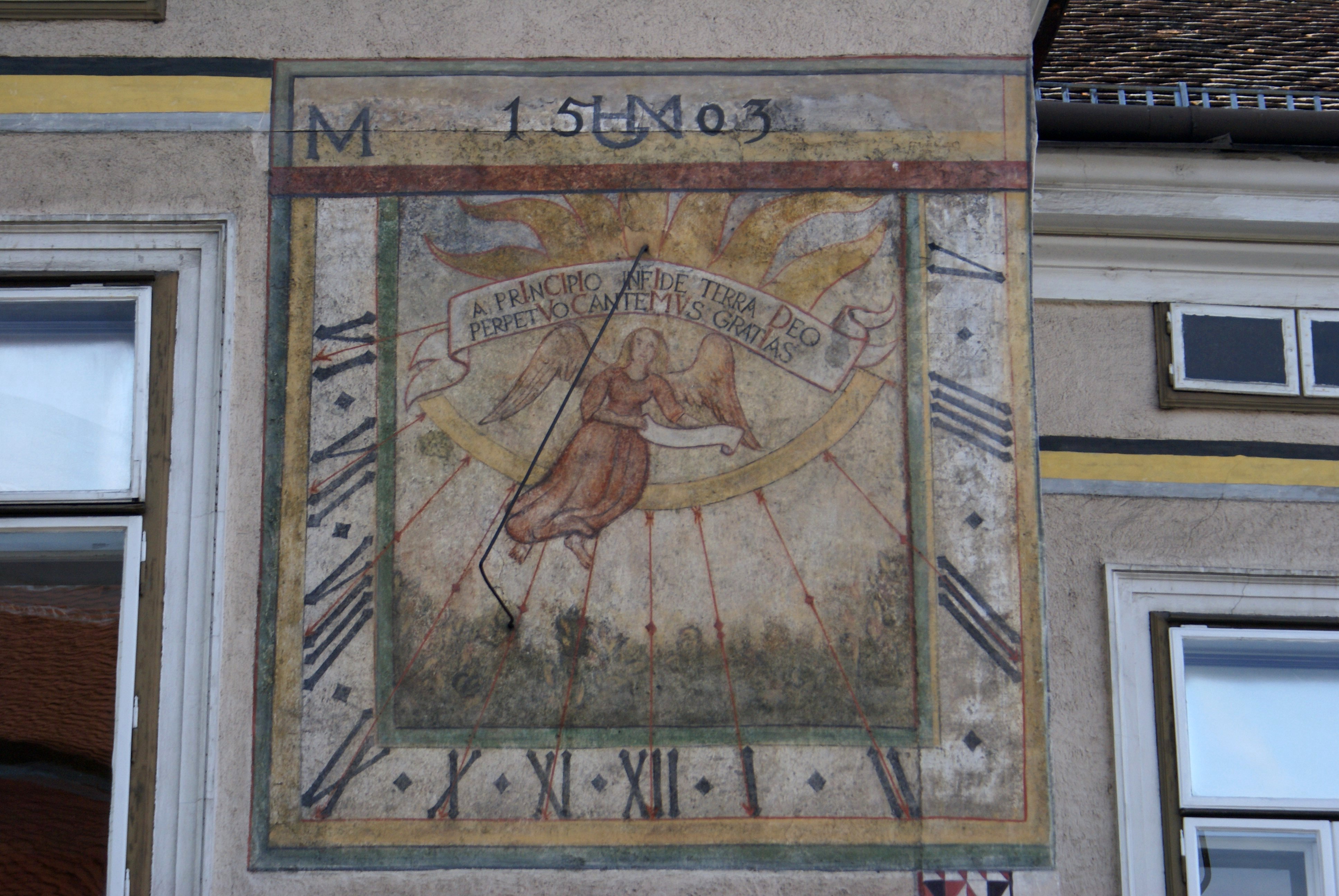 A sundial on an old building on Kostkahaus, Freiheitsplatz 6 (Freedom Square) in Mödling, Austria. The sundial is originally from the year 1503, as indicated by the painting. The sundial pictures an angel.